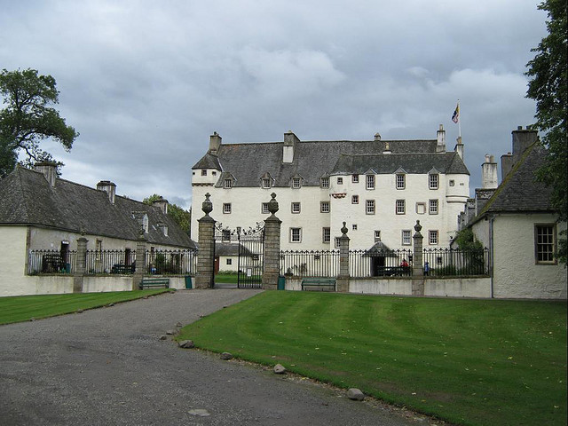 Traquair House in Scotland, south-western aspect